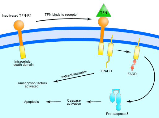 Overview of tumour necrosis factor (TNF) signalling in apoptosis.